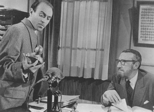 Los Acusados- película de 1960